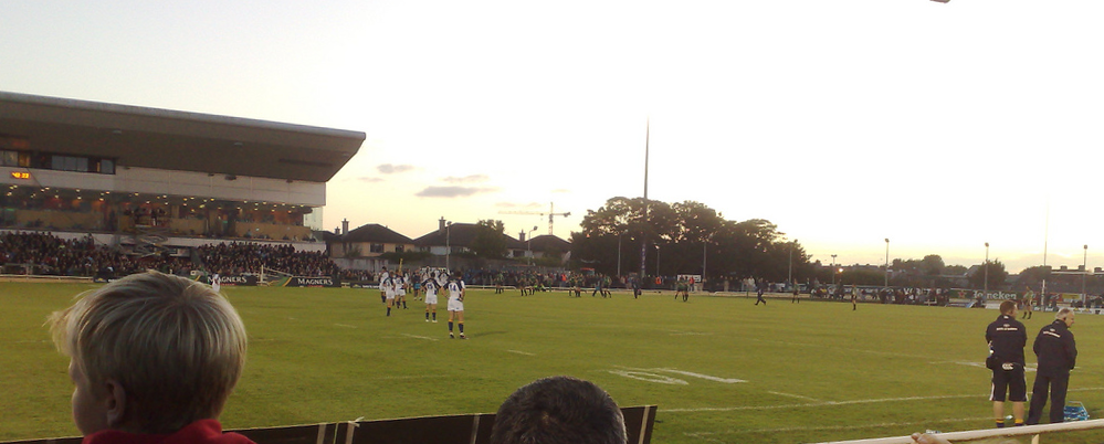 Crop of File:Galway Sportsgrounds - 2.jpg to focus on the stand and pitch